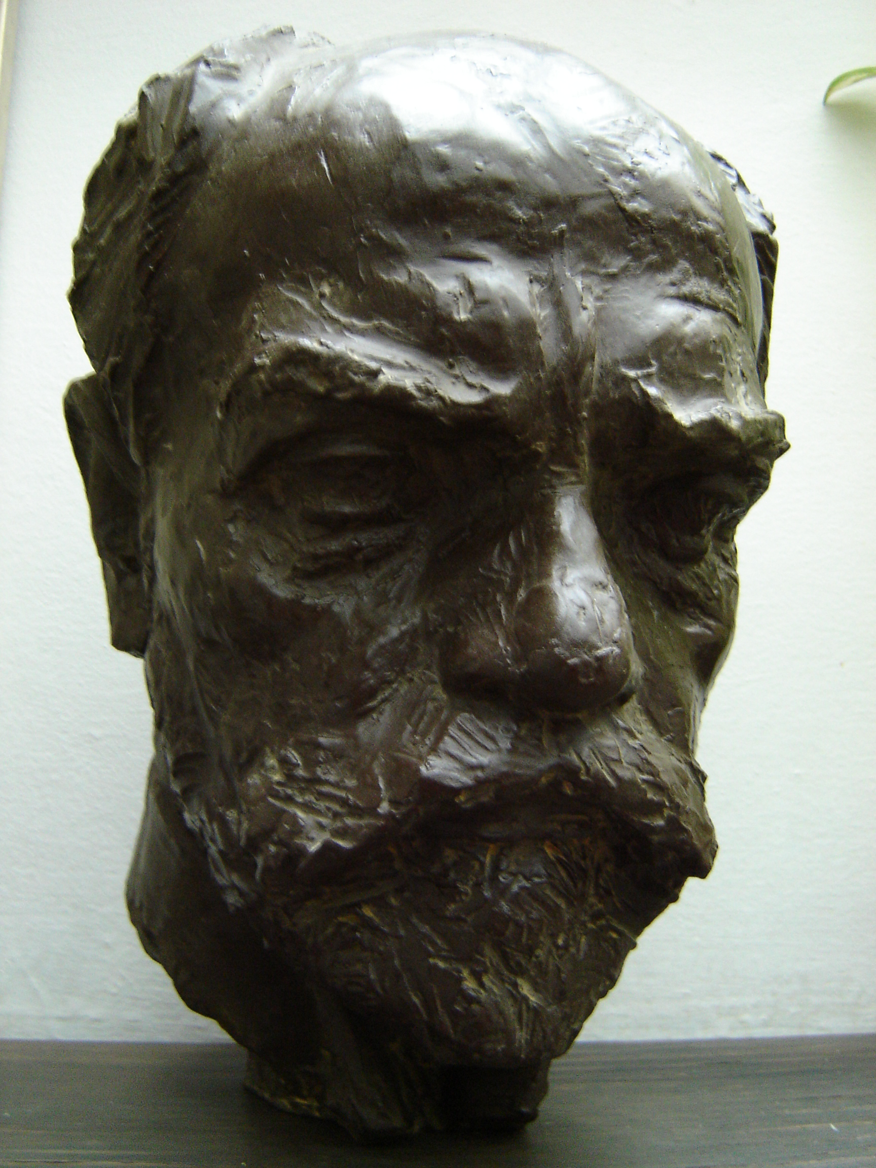 A bronze bust of the Czech composer Antonin Dvorak (1841-1904), 1979. Author: Vladimír Kýn (1923-2004), sculptor, artist and illustrator